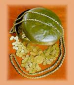 Golden Treasure of Kosice